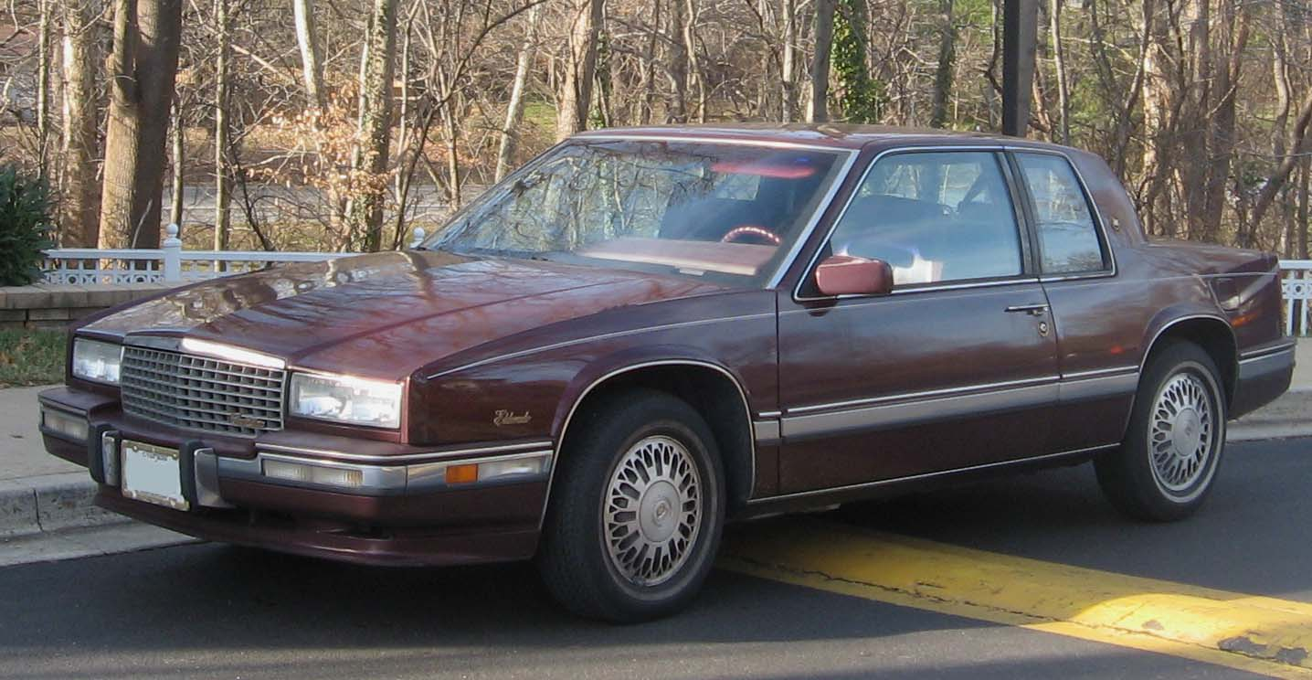 1986-1991 Cadillac Eldorado photographed in Kensington, Maryland, USA.